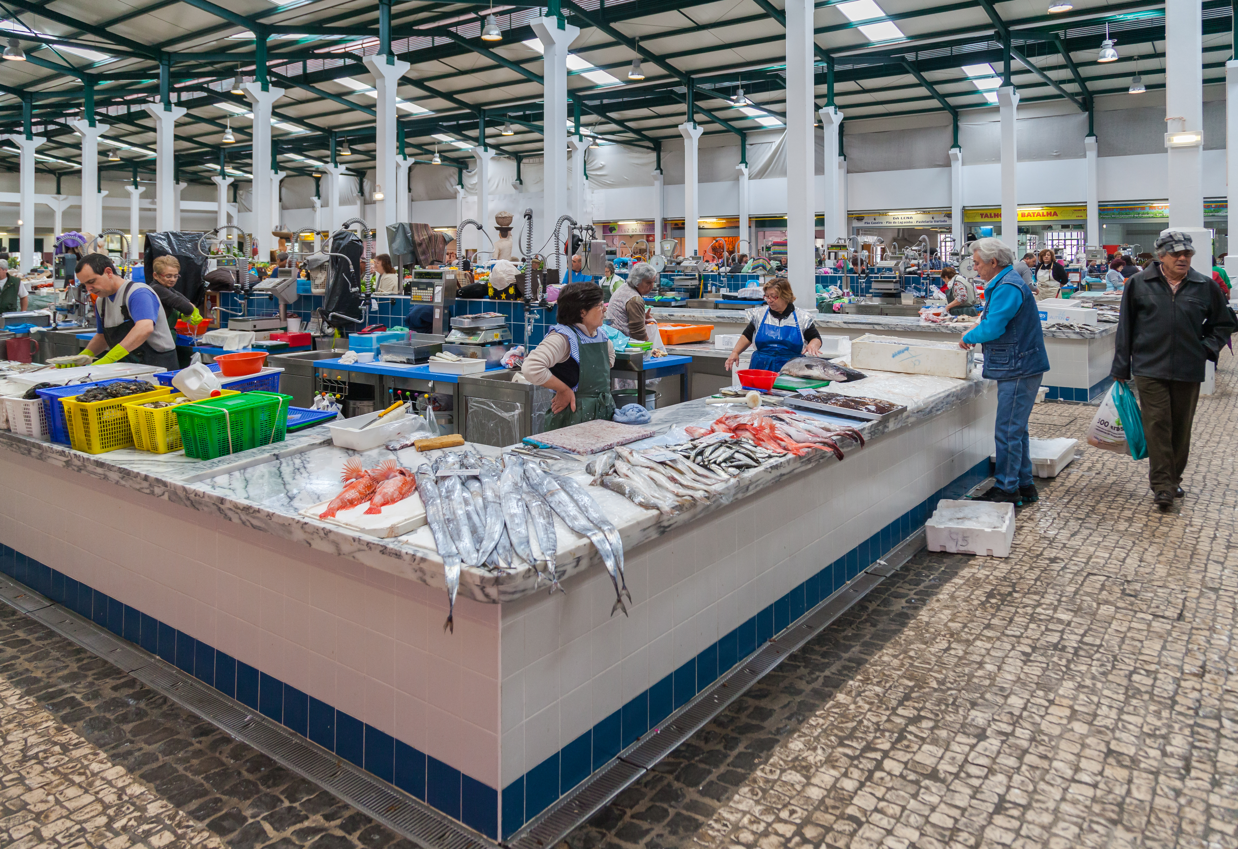 Local market, Setubal, Portugal